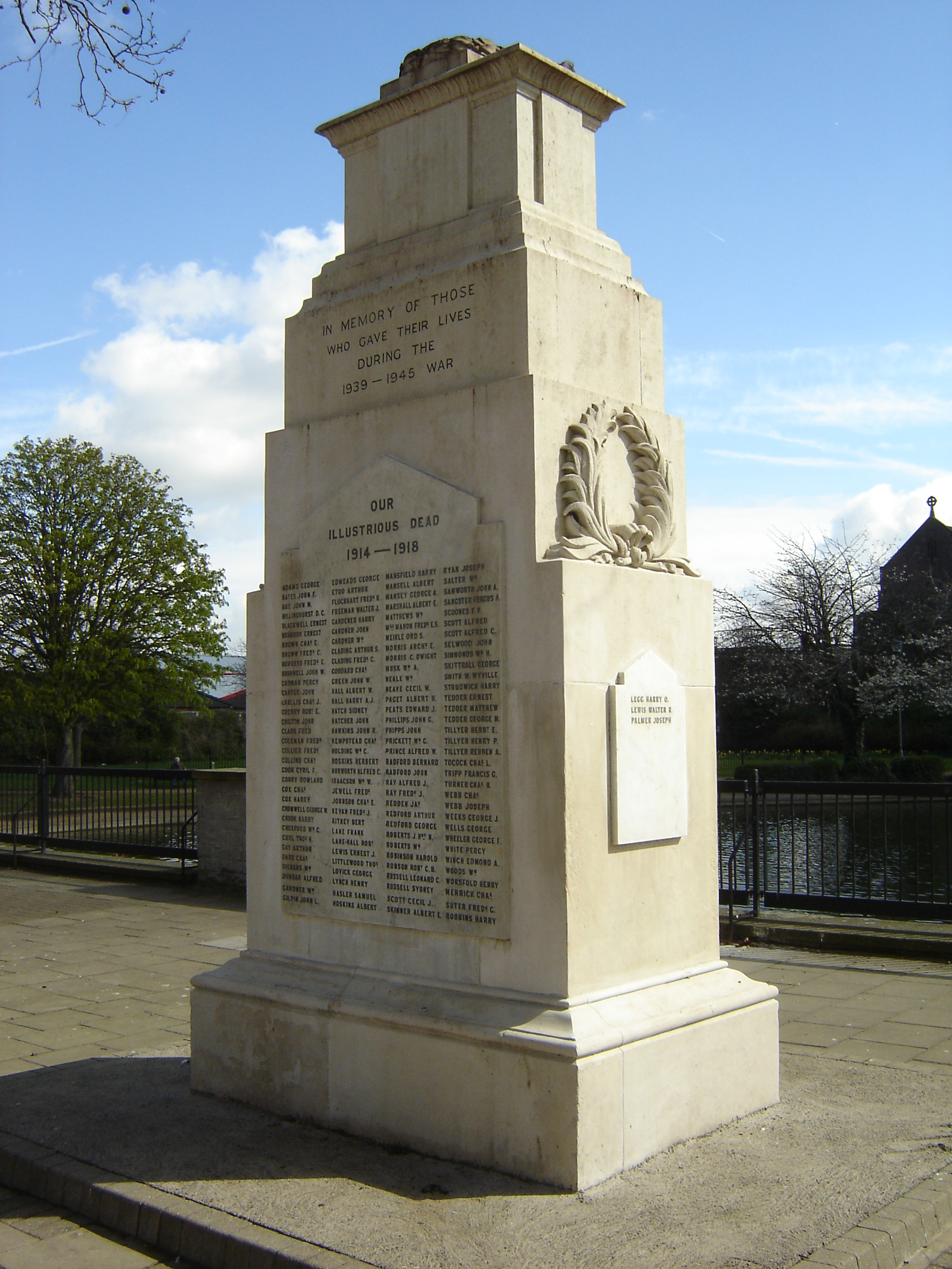 War memorial on Feltham High Street